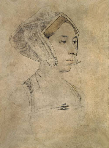 The drawing has been retouched in chalk on the shoulders by a later hand. The association of this drawing with Anne Boleyn goes back to Wenceslas Hollar's etching after it in 1649. The inscription on the print reads ANNA BULLEN REGINA ANGLIÆ|HENRICI VIIIui Vxor 2da Elizabeth Regine|Mater, fuit decollata, Londini 19 May 1536 (Anne Boleyn, Queen of England, 2nd wife of Henry VIII, mother of Queen Elizabeth, was beheaded in London on 19 May 1536). It is not known whether the inscription on the etching was taken from the drawing or vice versa. The inscription on the drawing (left of neck) dates from the 17th century and reads Anna Bullen de collata|Fuit Londini 19 May 1536. The identification may have been based on a superficial similarity with some of the late-Elizabethan hack images of Anne. Anne's biographer Eric Ives believes that neither this nor Holbein's drawing in the Royal Collection of a different woman inscribed "Anna Bollein Queen" are of Anne. No certain contemporary likeness of Anne is known, other than a damaged lead portrait medal. References Foister, Susan, Holbein in England, London: Tate: 2006, ISBN 1854376454, p. 58. Eric Ives, The Life and Death of Anne Boleyn, Oxford: Blackwell, 2005. ISBN 9781405134637, pp. 42–44. Rowlands, John, The Age of Dürer and Holbein, London: British Museum, 1988, ISBN 0714116394, p. 236.